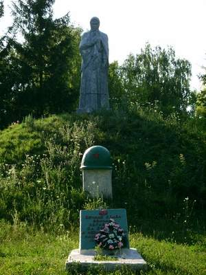 The graves of soldiers of the Great Patriotic War, with a statue called the "Mourning Mother"